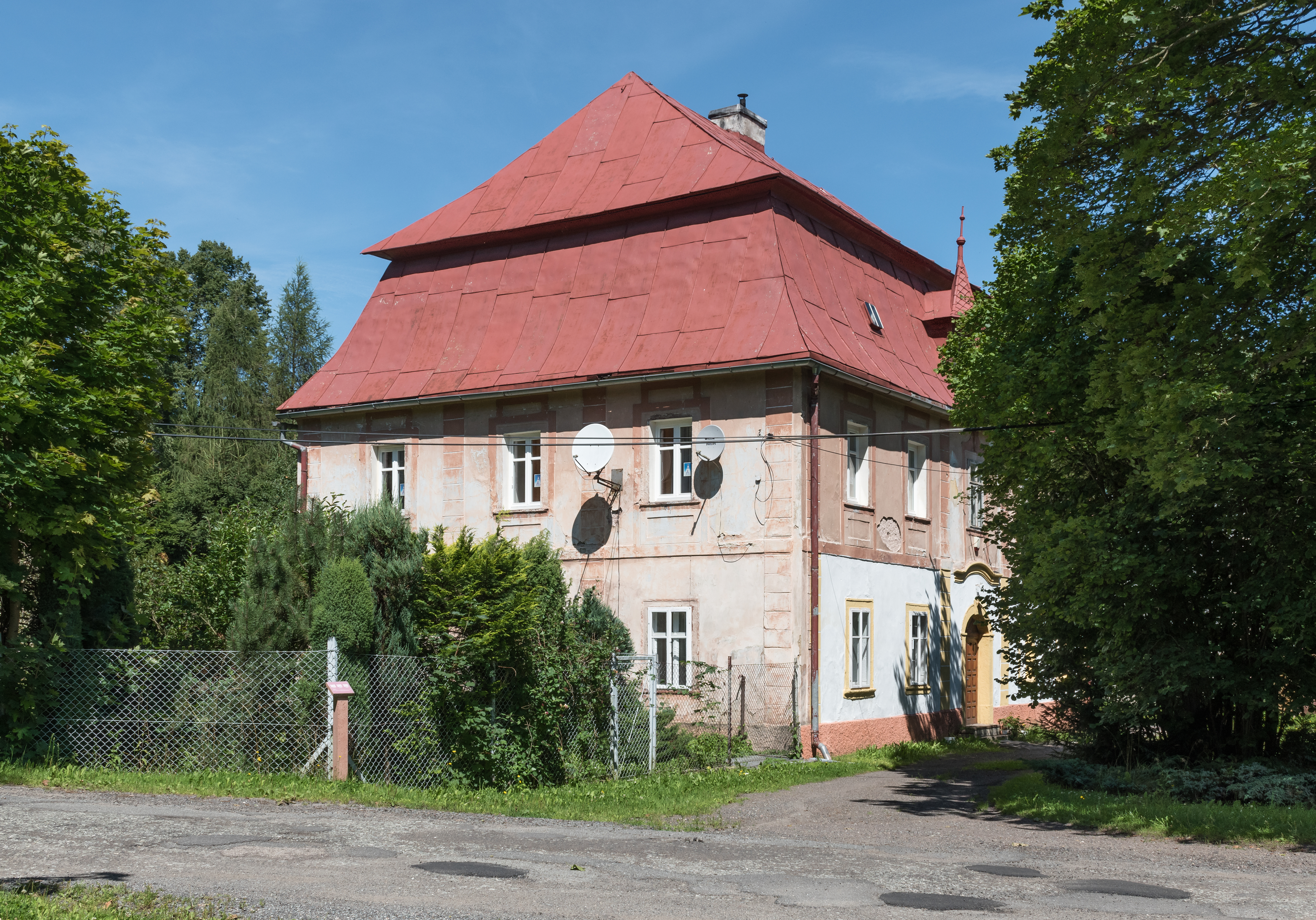 Rectory in Świerki Wikidata has entry Q30049446 with data related to this item.